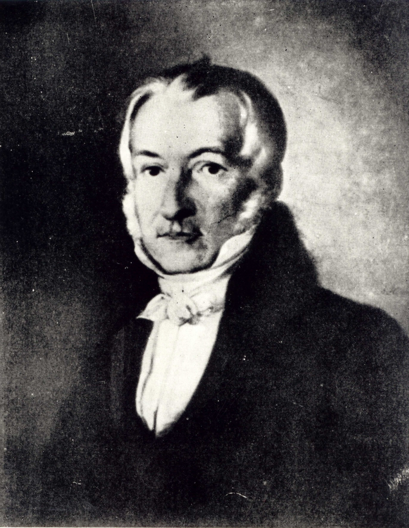 Ludwik baron Rastawiecki